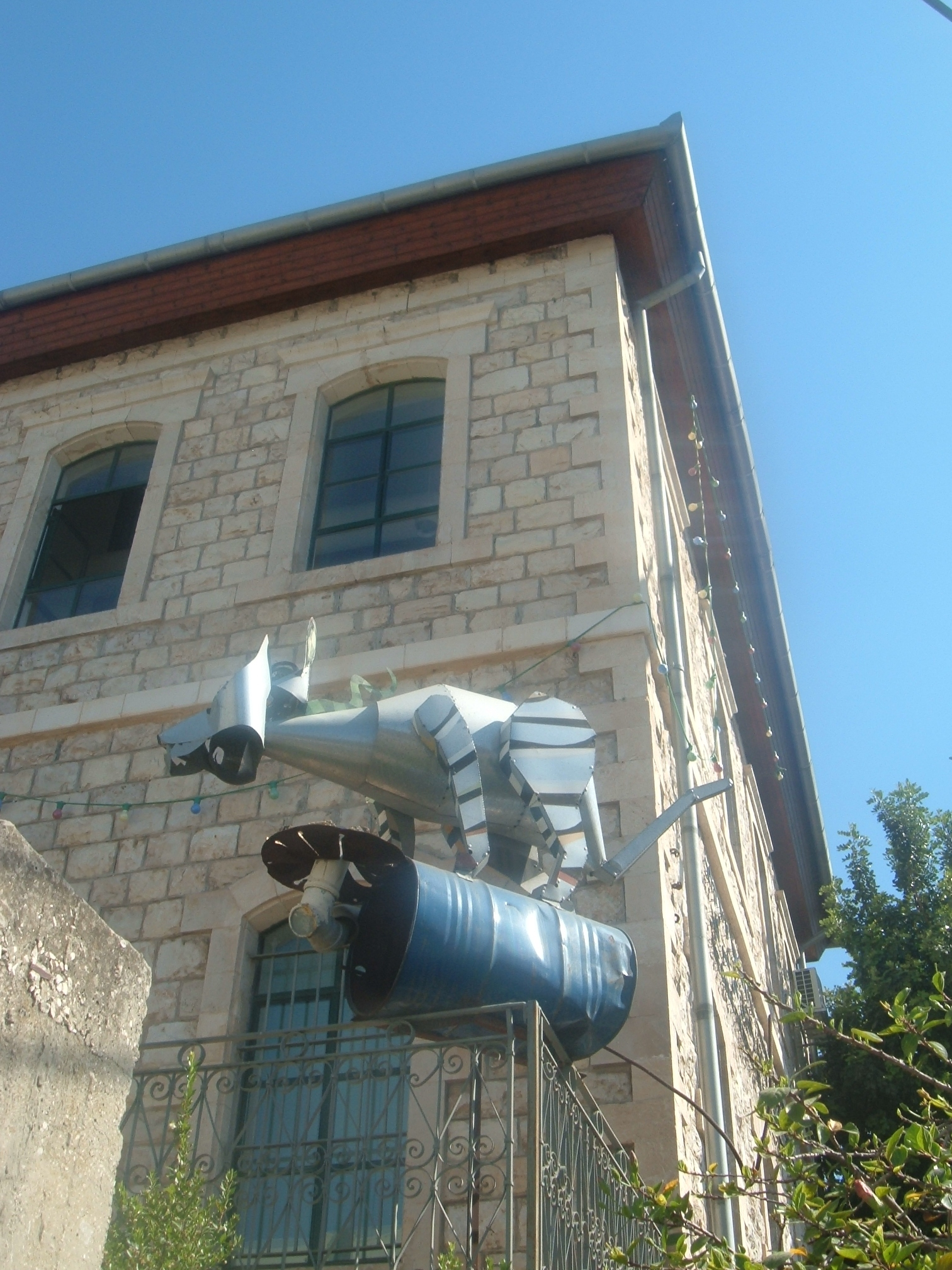 a statue in a court of a house in Wadi Nisnas, Haifa פסל בחצר בית ברח' הציונות בסמוך לתיאטרון בית הגפן בואדי ניסנאס בחיפה